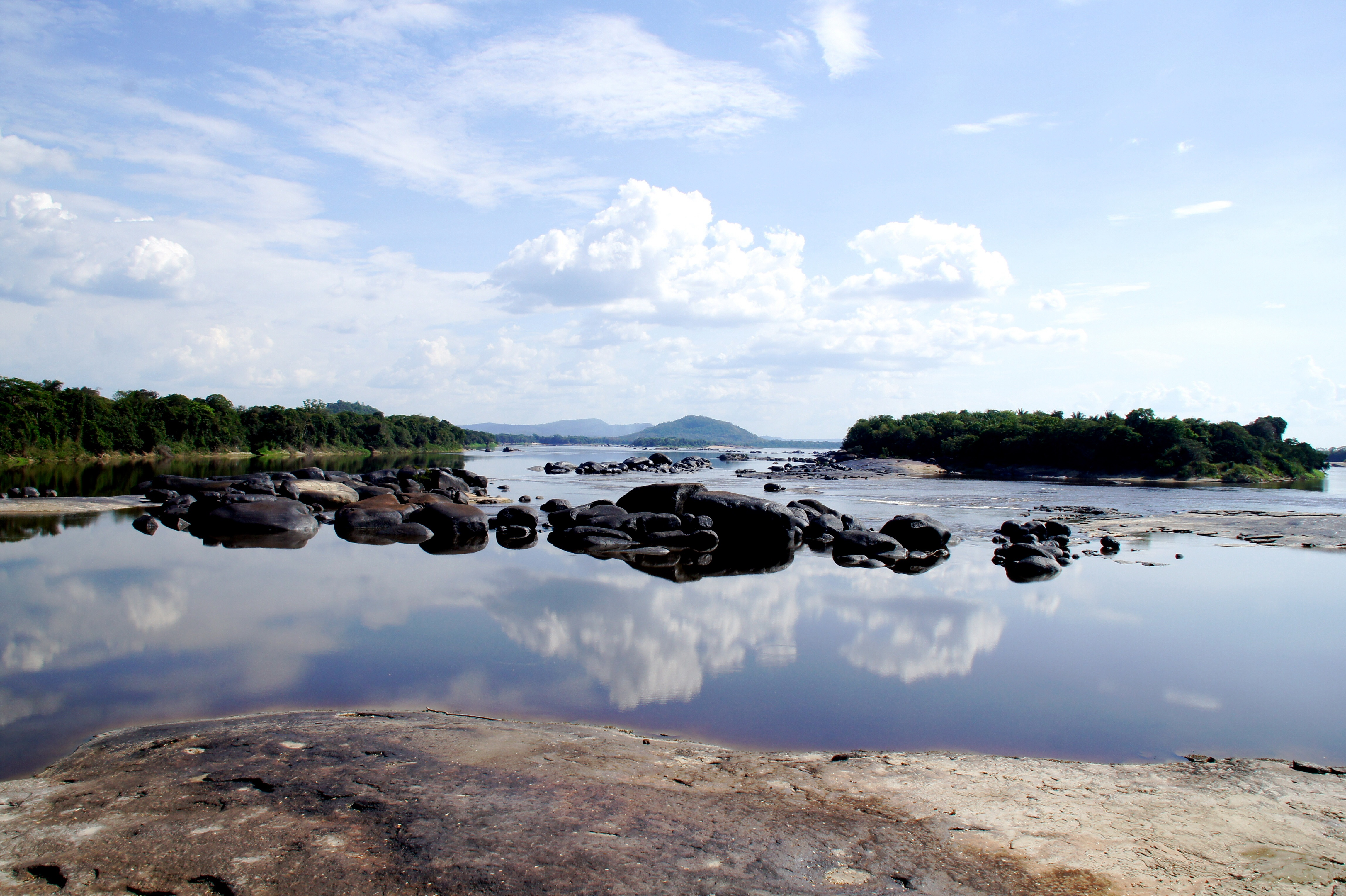 Scenery on Orinoco